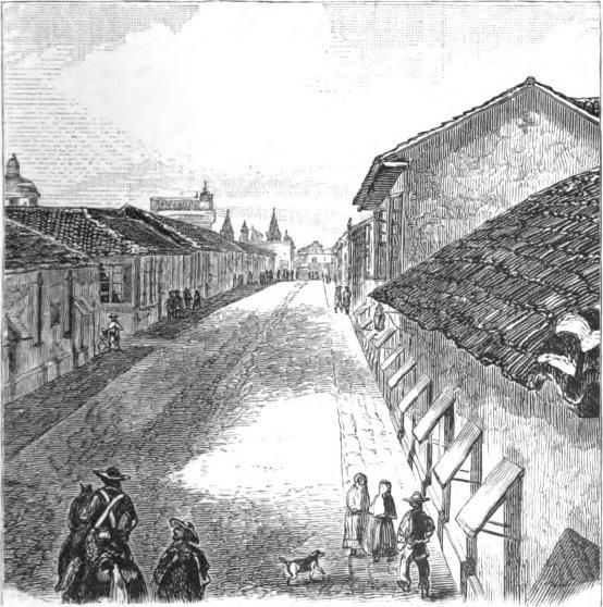 Sketch of Comayagua, Honduras